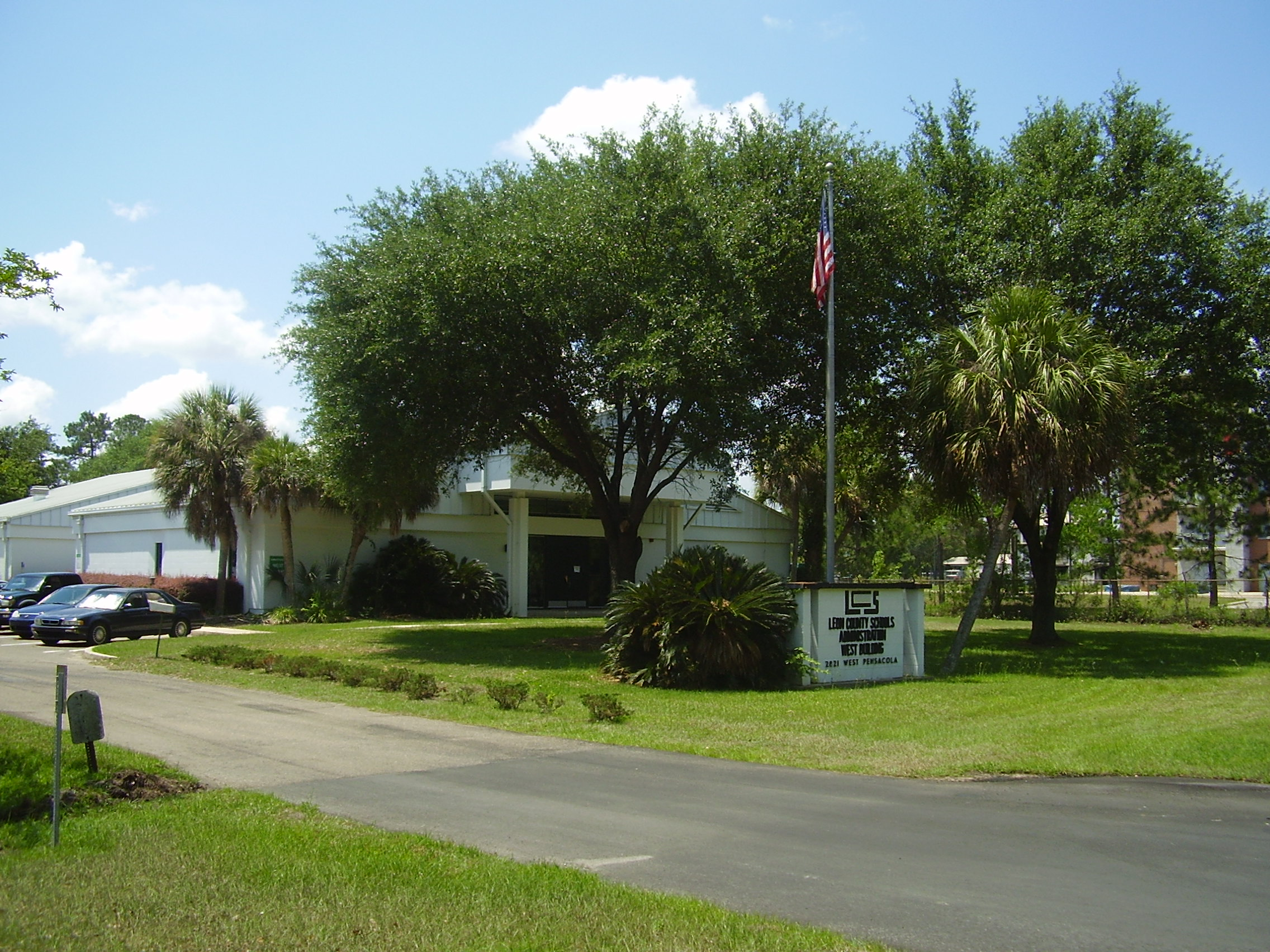 Leon County Schools West Administration Building - 2021 West Pensacola